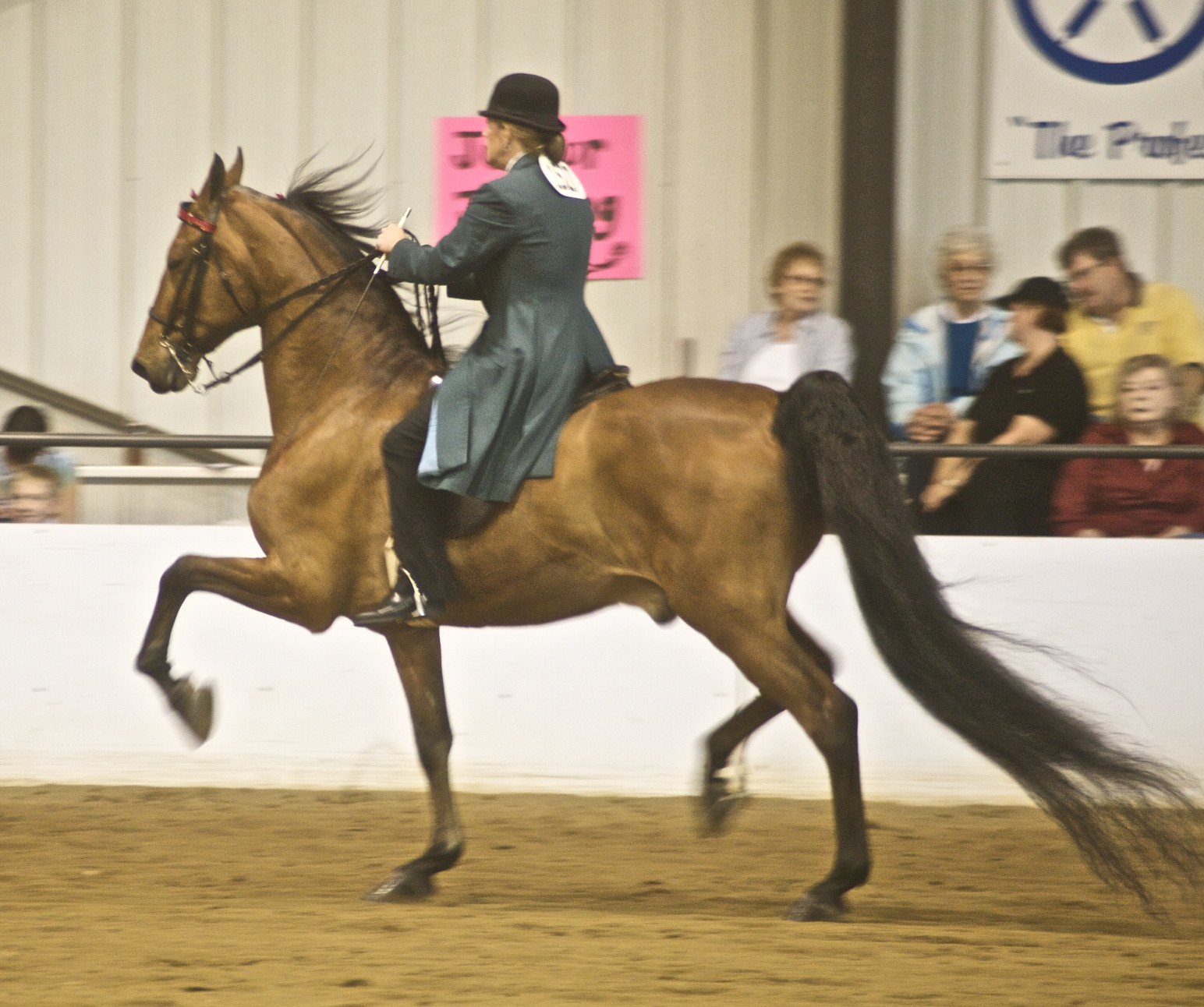 American Saddlebred